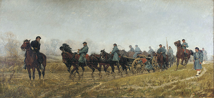 Summary: The painting "Battery of Light Artillery en Route" by William B. T. Trego (1858 - 1909)